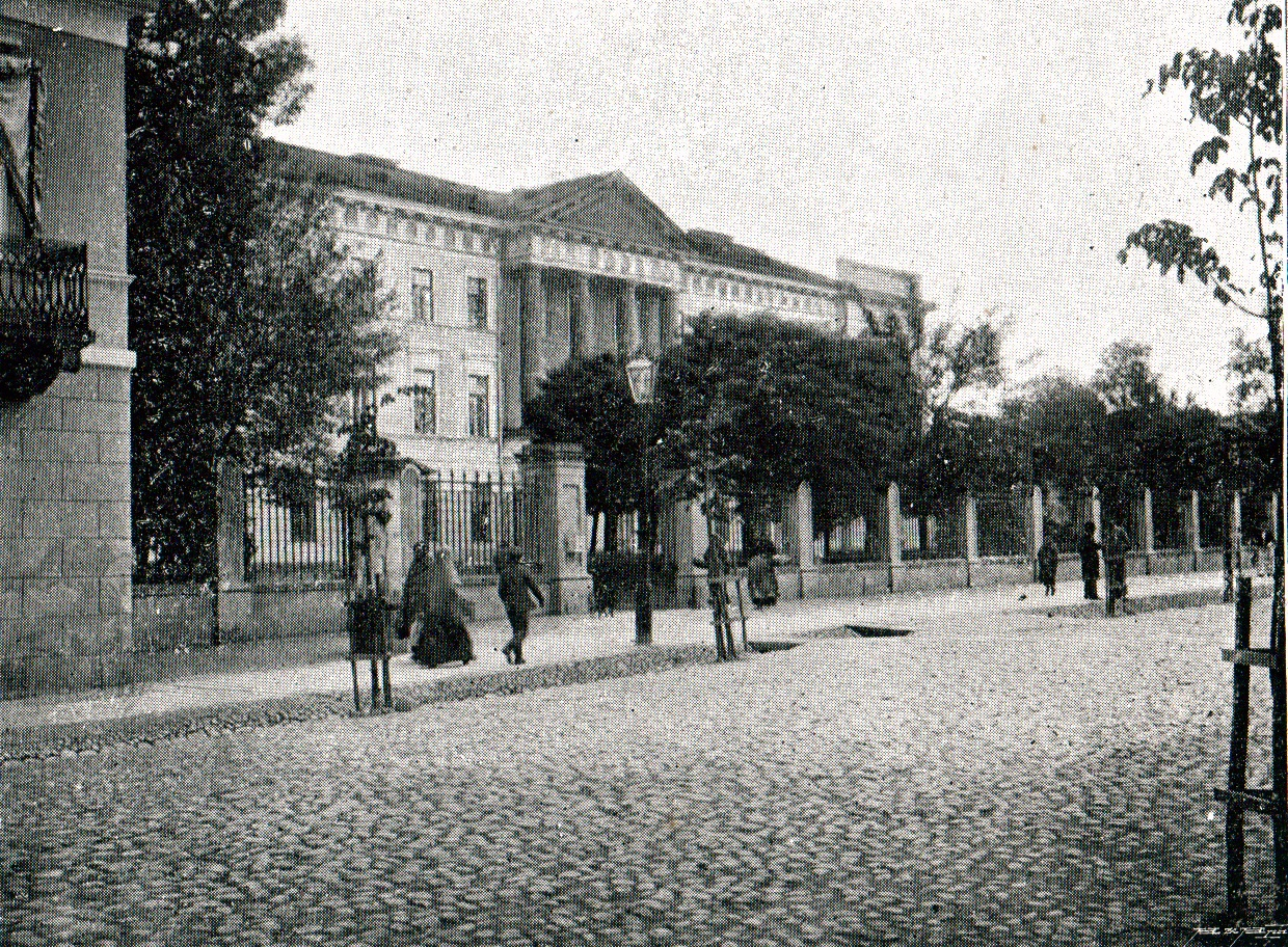 Governorate headquarters in Radom, 1899